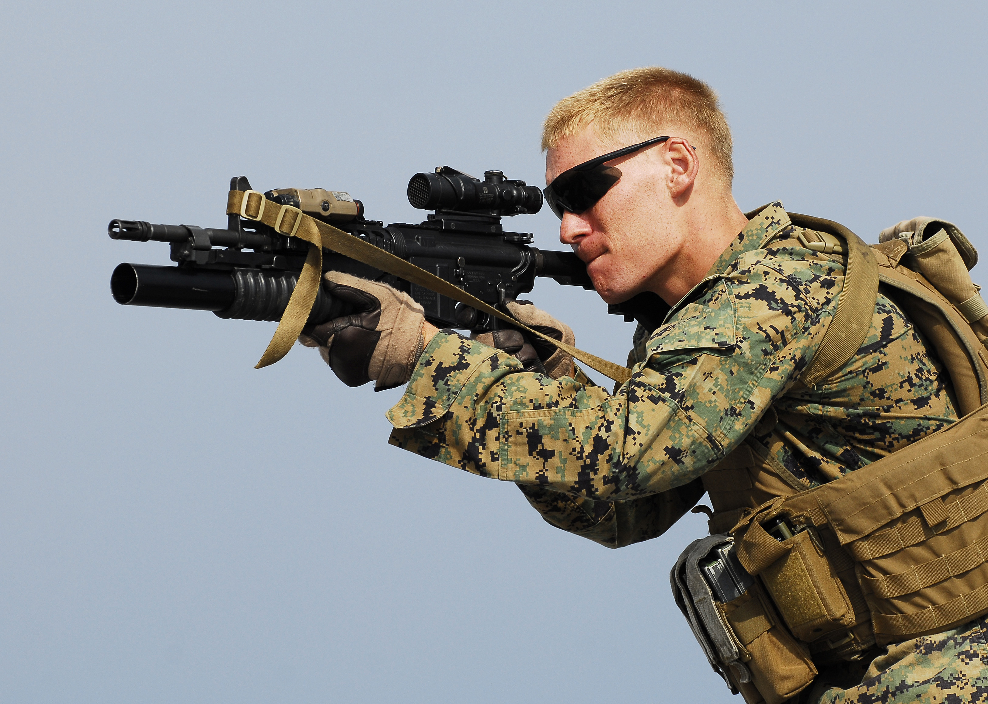 INDIAN OCEAN (Oct. 29, 2009) A Marine assigned to Battalion Landing Team 2/5, 31st Marine Expeditionary Unit (31st MEU) participates in an enhanced marksmanship program shoot aboard the amphibious dock landing ship USS Harpers Ferry (LSD 49). Harpers Ferry is part of the Denver Amphibious Ready Group conducting a fall patrol in the western Pacific Ocean. (U.S. Navy photo by Mass Communication Specialist 2nd Class Joshua J. Wahl/Released)